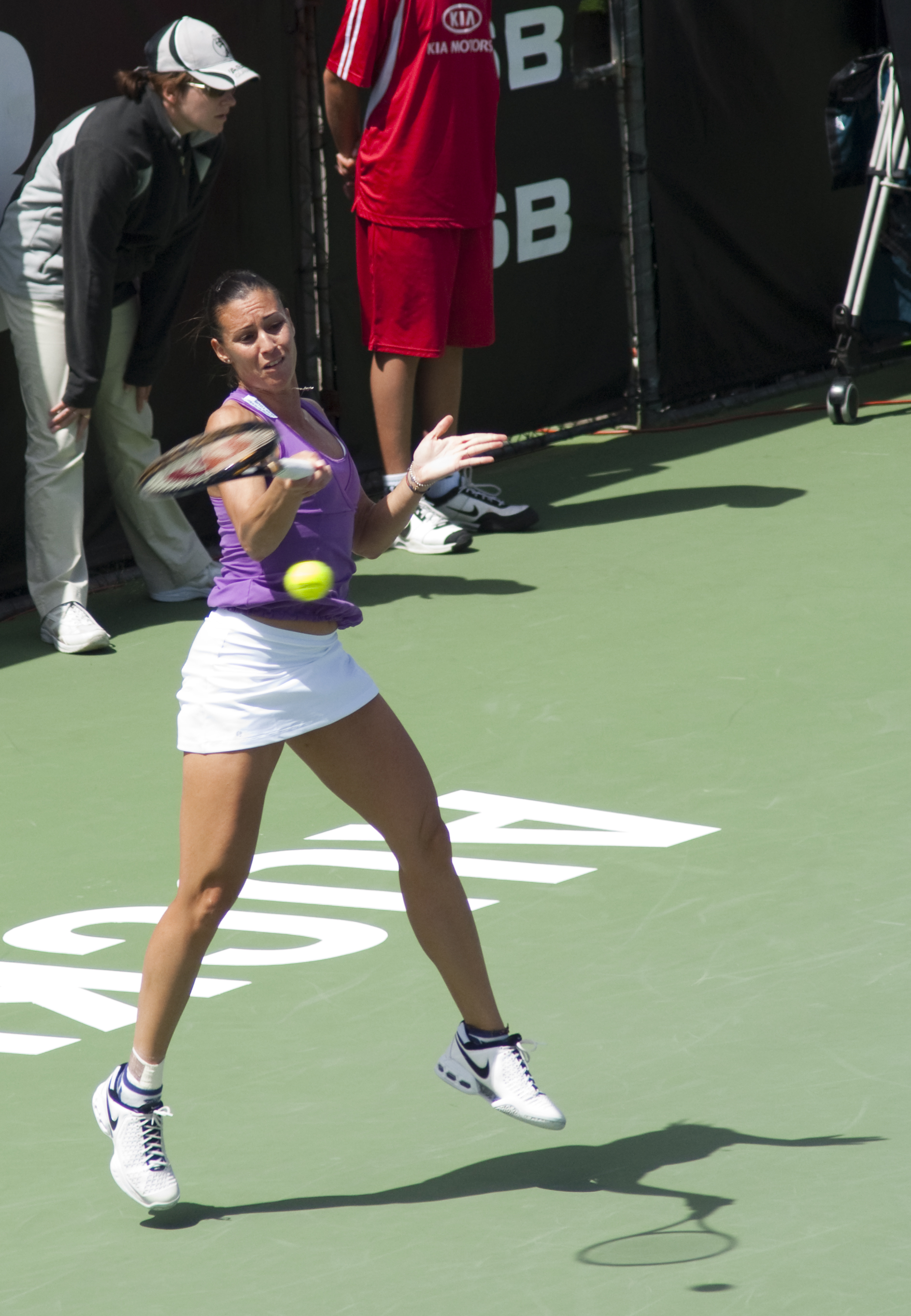 Semis-Day for ASB Classic 2010 Friday, January 8 Centre Court Noon KIA Motors Singles SF - 3-WC Yanina Wickmayer (BEL) bt Shahar Peer (ISR) 6-4 7-5 followed by KIA Motors Singles SF - 1 Flavia Pennetta (ITA) bt 4 Francesca Schiavone (ITA) 6-3 6-0 followed by (after suitable break) KIA Motors Doubles SF - 1 Cara Black (ZIM)/Liezel Huber (USA) bt 3 Flavia Pennetta (ITA)/Francesca Schiavone (ITA) 6-1 5-7 10-8